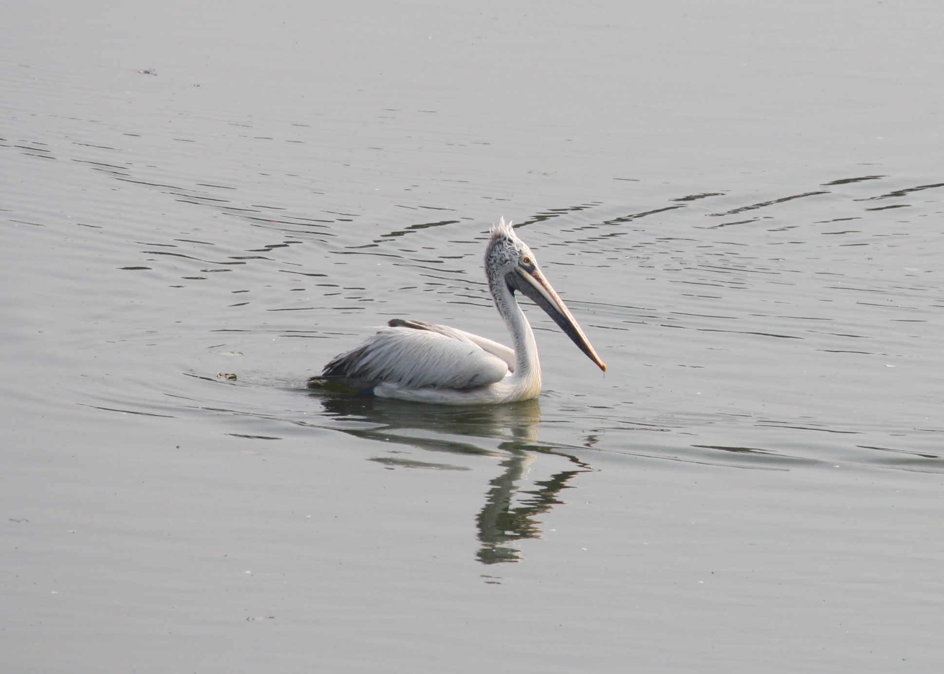 Grey Pelican / Spot-billed Pelican (pelecanus philipensis) swimming in the Vedanthangal Bird Sanctuary, near Chennai, Tamil Nadu, India